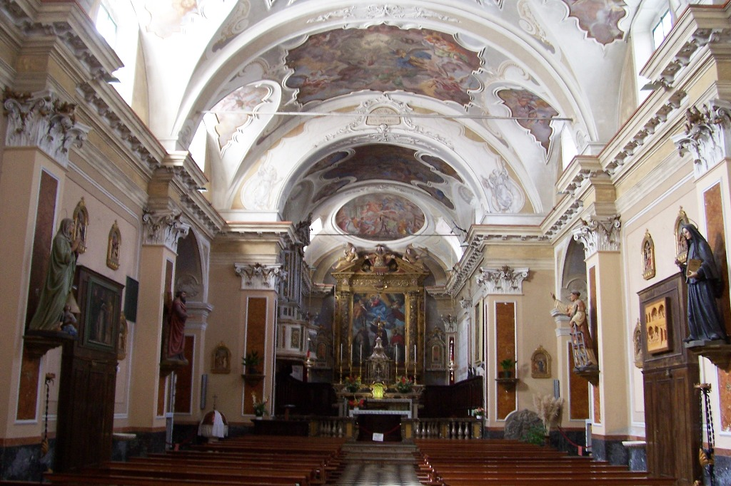 Inside of the Church of San Lorenzo. Sonico, Val Camonica